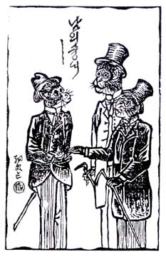 Lee do Yeong's cartoon, 남의 숭내 (Imitating Others)